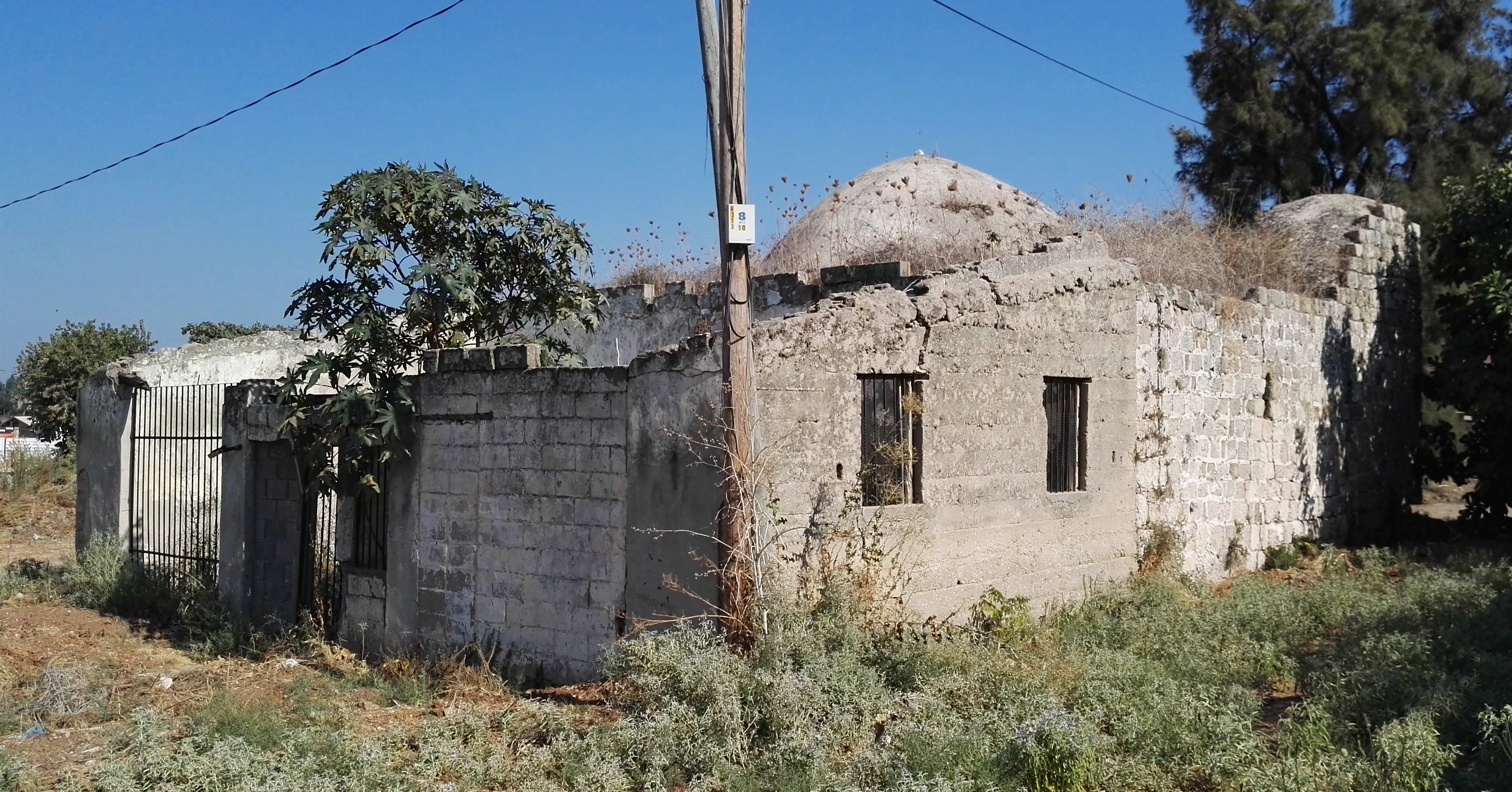 Abandoned building in Rehovot,Israel; formerly a mosque of village Zarnuka.